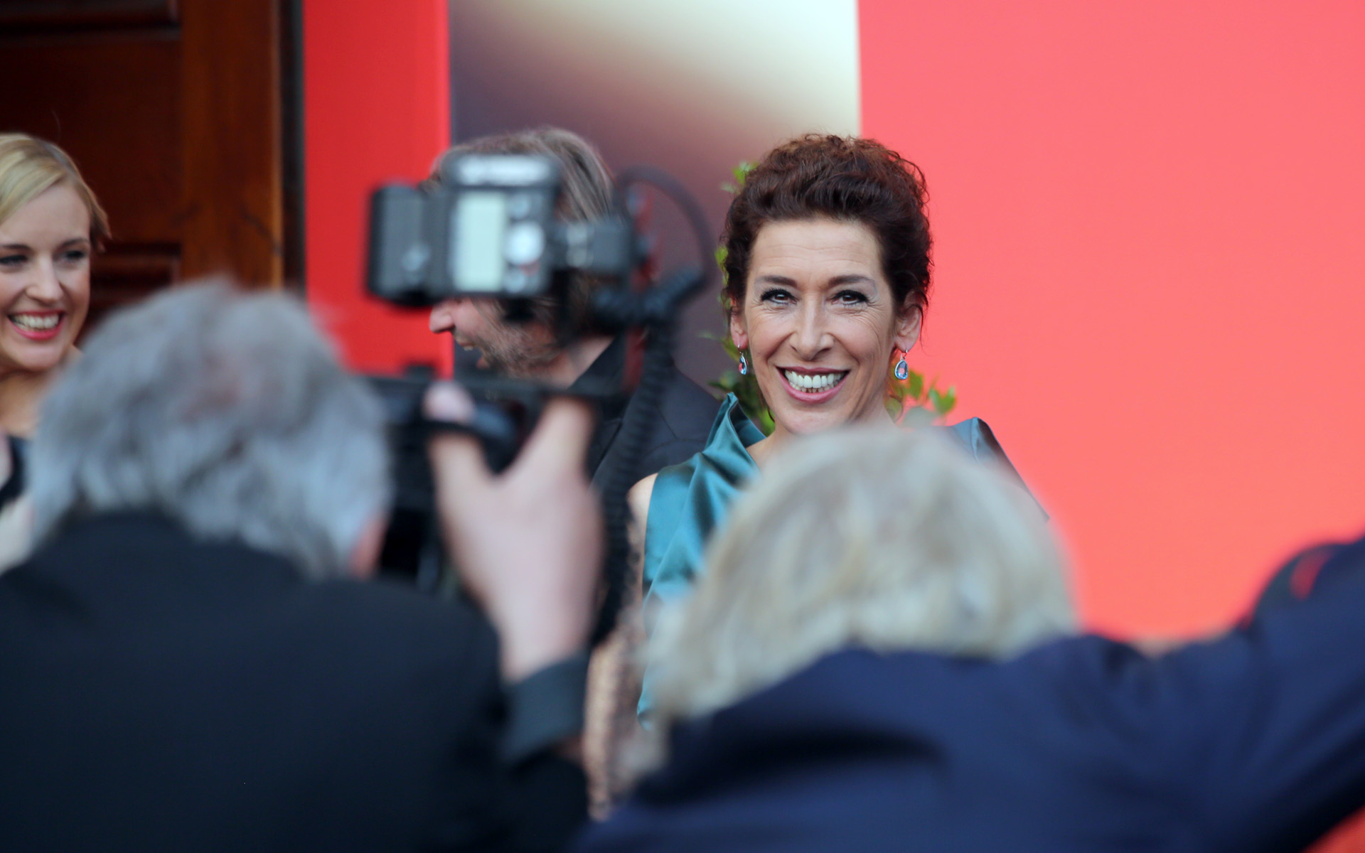 Adele Neuhauser (r.) and Lilian Klebow at the Romy TV awards (Hofburg Imperial Palace in Vienna)